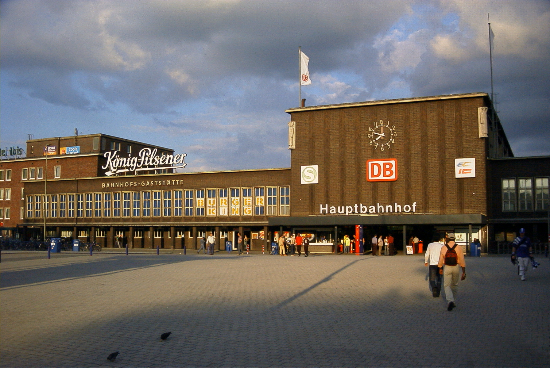 Duisburg Hauptbahnhof in the setting sun, 2003.